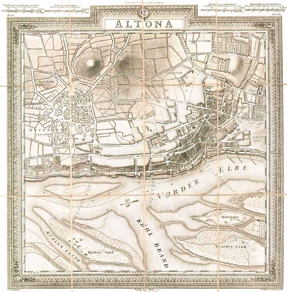 Map of Altona (today a district of Hamburg) from 1803.